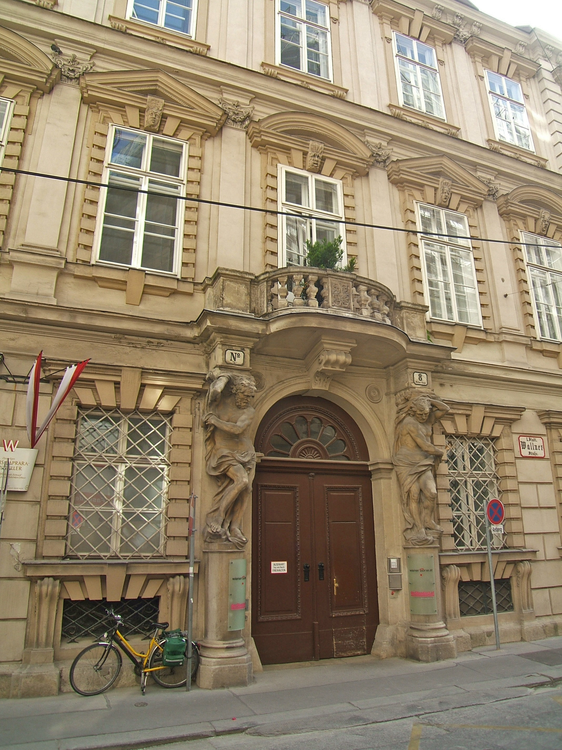 Palais Caprara Geymüller in Vienna 1st district Wallnerstraße 12